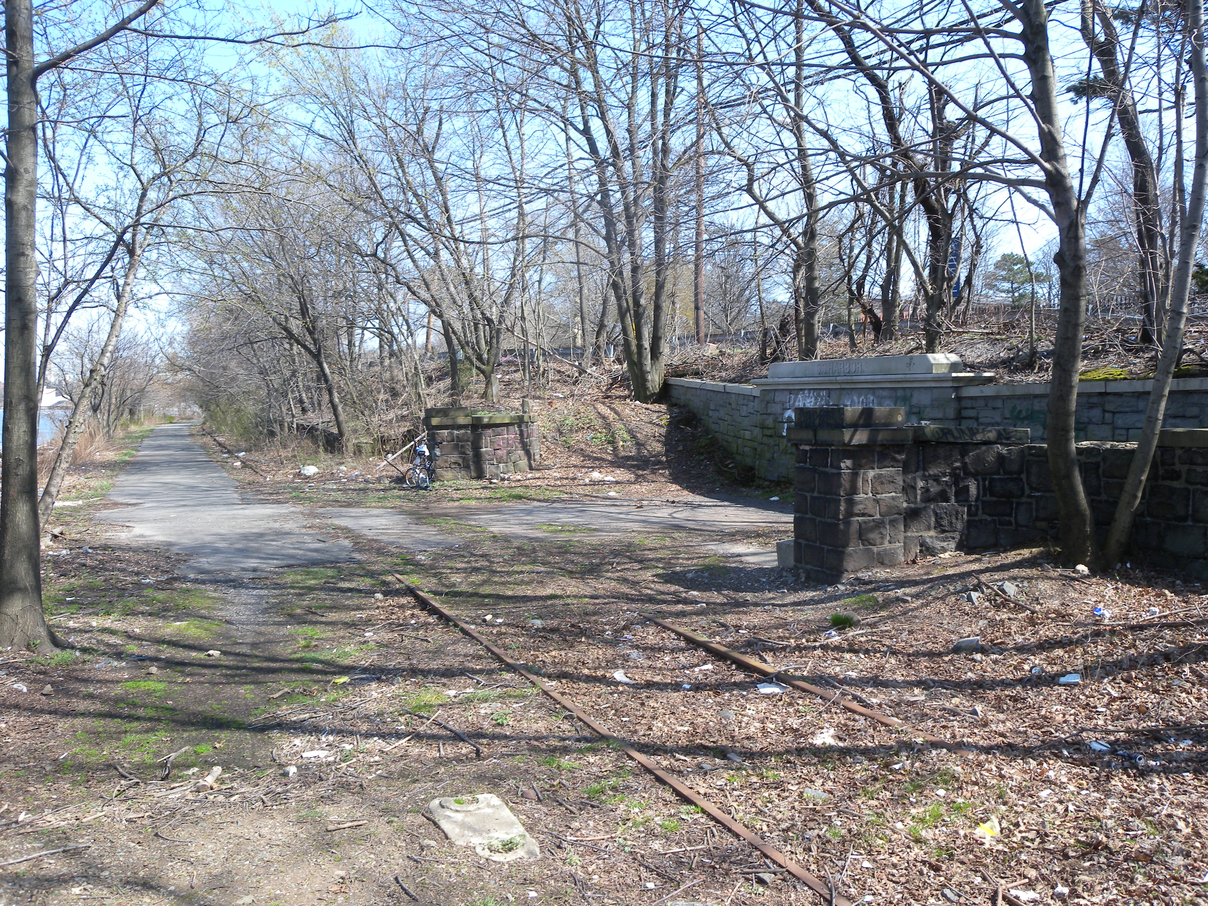 Looking east past File:SIRT S S Harbor wall jeh.jpg at west end of paved and unpaved track on a sunny midday.